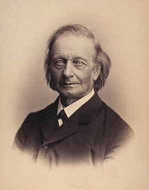 Jens Christian Hostrup (1818-1892), Danish poet, dramatist, and priest